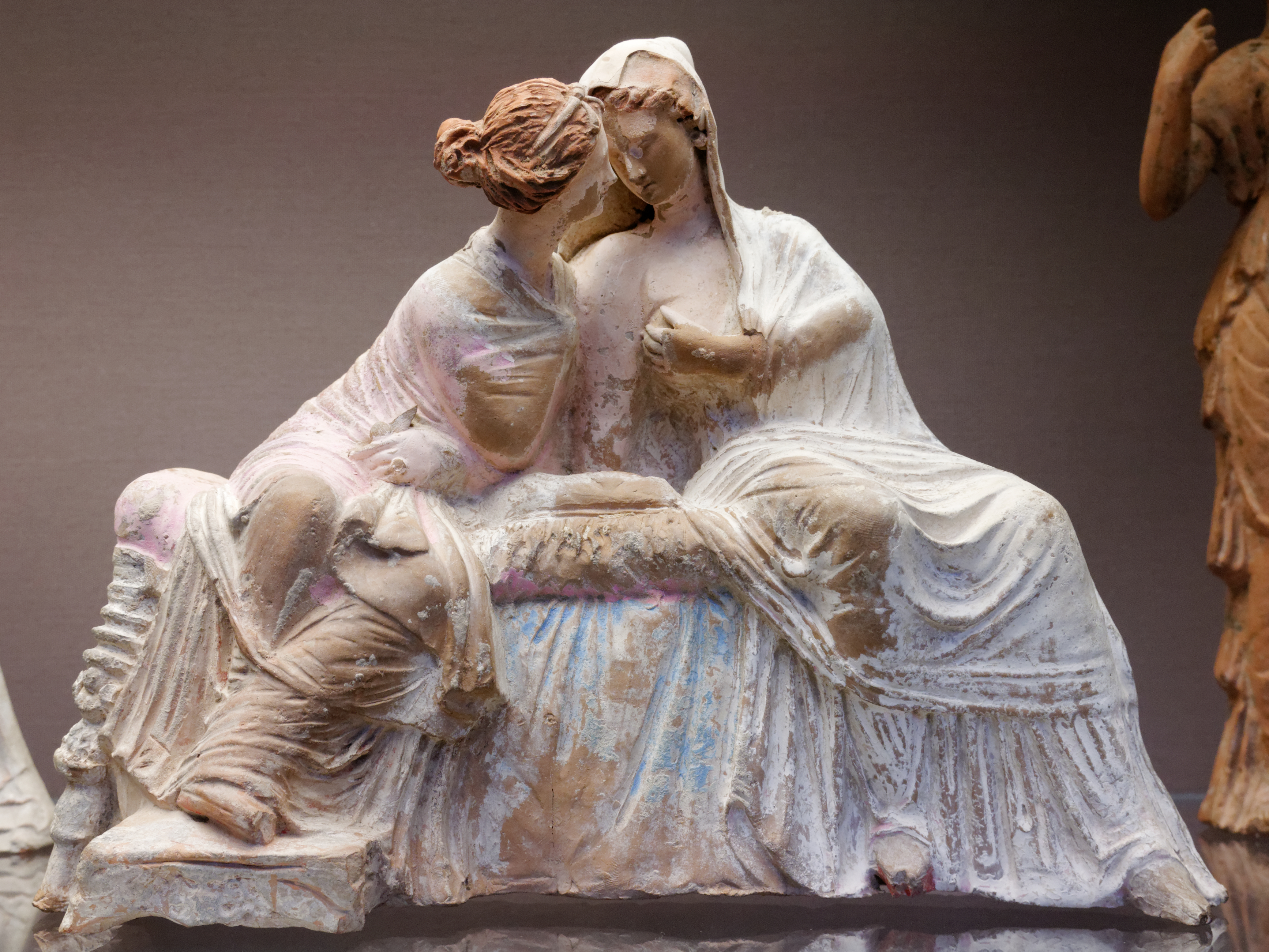 Group of two women, perhaps Demeter and Persephone.